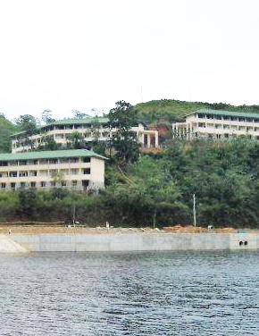 Talawakelle Tamil Maha Vidyalayam Building Image